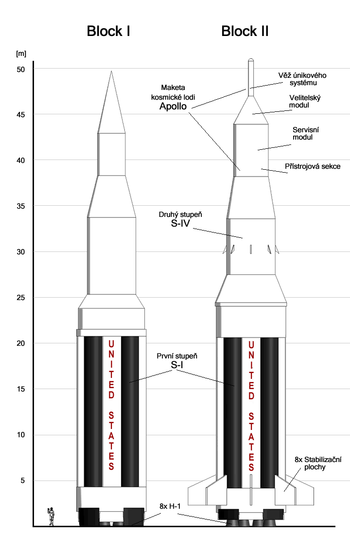 Configurations of Saturn I Block I and Block II rockets.